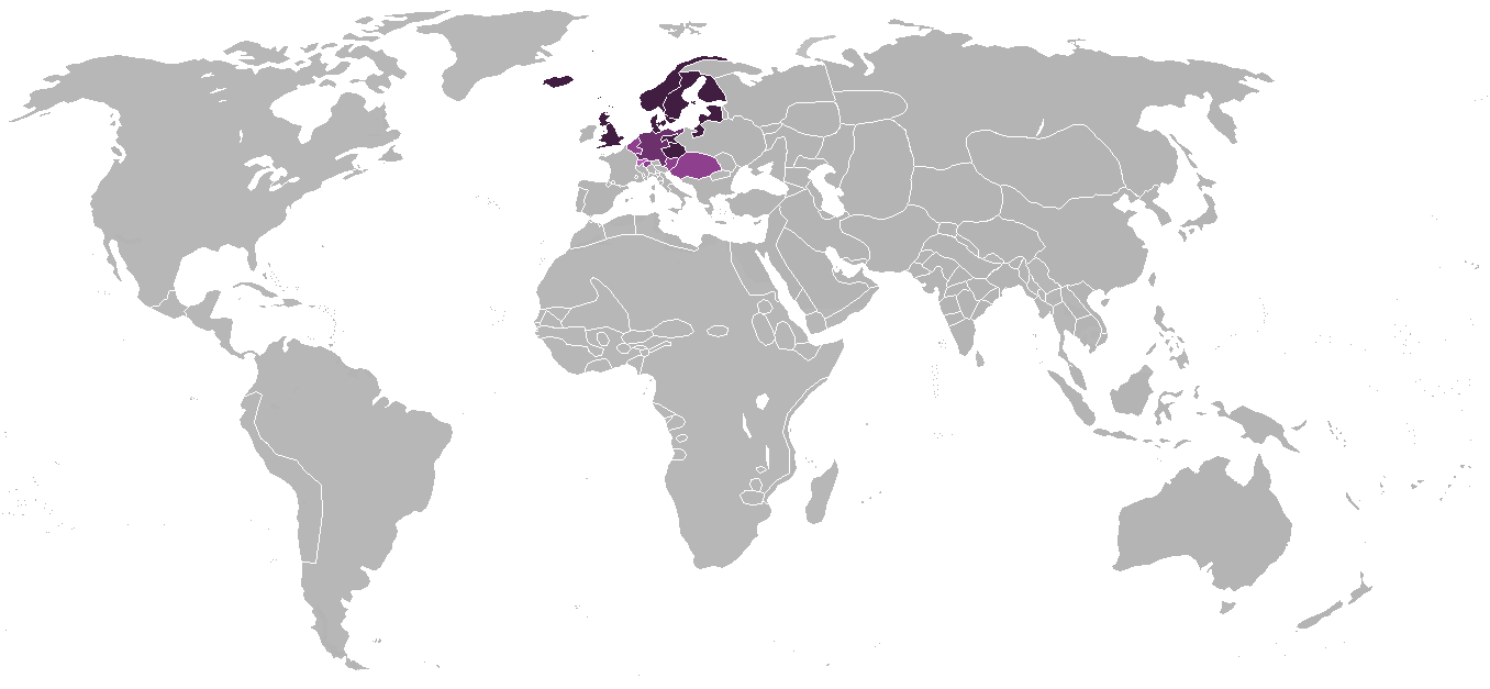 This map shows countries by percentage of Protestants around 1545, that is the exact year the Council of Trent officially launched the Counter-Reformation against Protestantism in Europe to restore unity in the Catholic Church. Notice that before the Counter-Reformation brought back Roman Catholicism: Bohemia (today: the Czech Republic) was majority Hussite with a large Lutheran minority, eastern Austria was largely Lutheran, Hungary was largely Calvinist with sizeable Lutheran minority. This persisted until all of those regions were "pacified" in the Thirty Years' War by Habsburg forces (1620s). Legend: 90%-100% 80%-90% 70%-80% 60%-70% 50%-60% 40%-50% 30%-40% 20%-30% 10%-20% Below 10% or no data